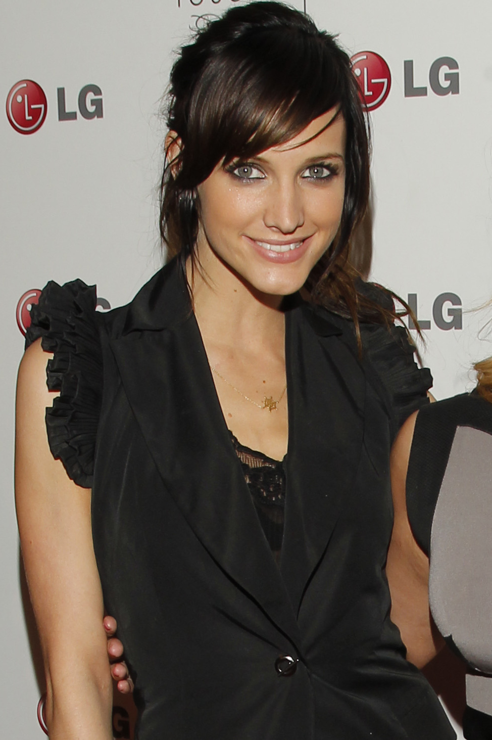 LG Mobile Phone Touch Event. Singer Ashlee Simpson.